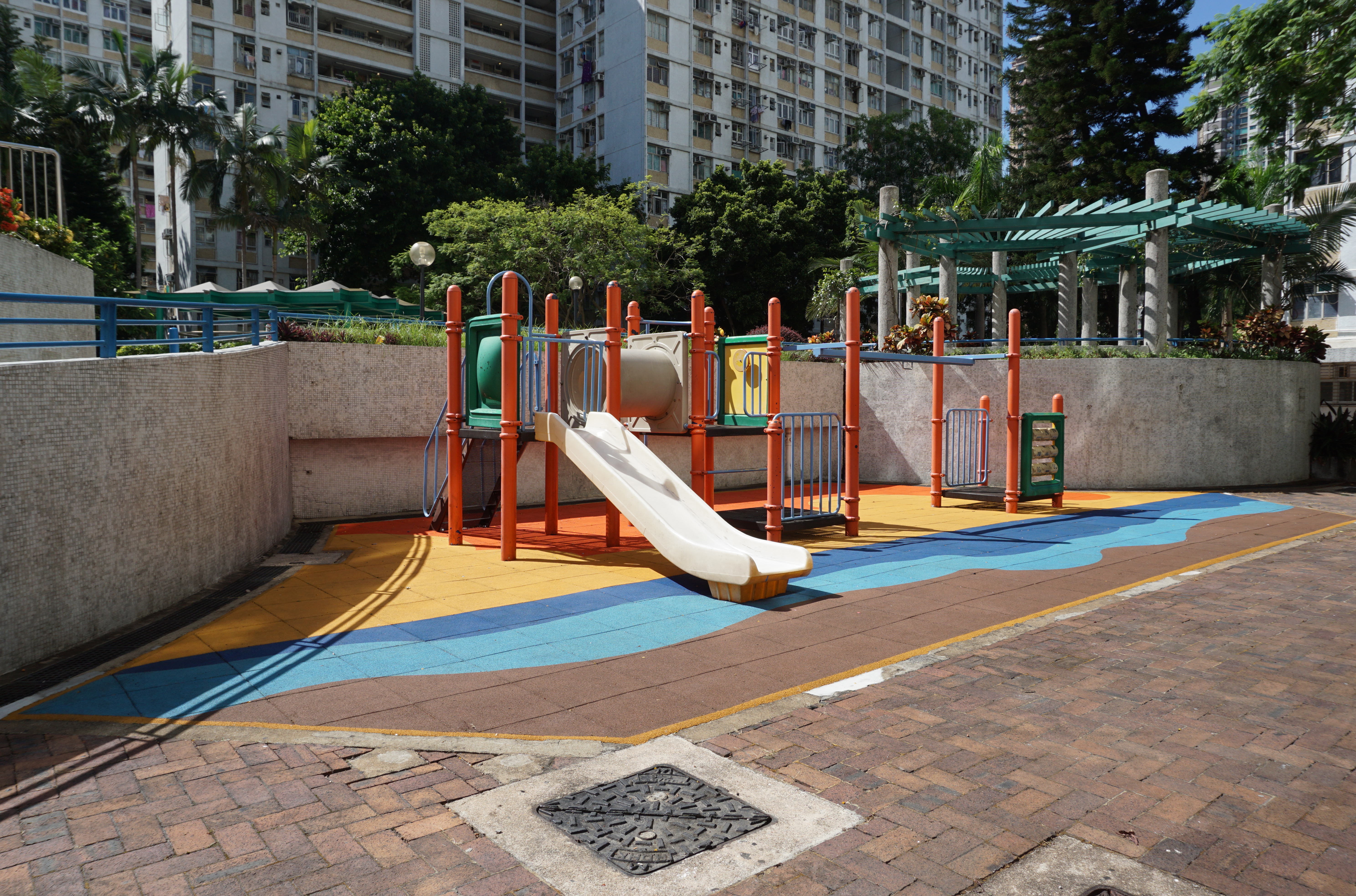 Nam Cheong Estate in Nam Cheong, Hong Kong.